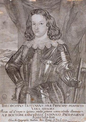 Gravura